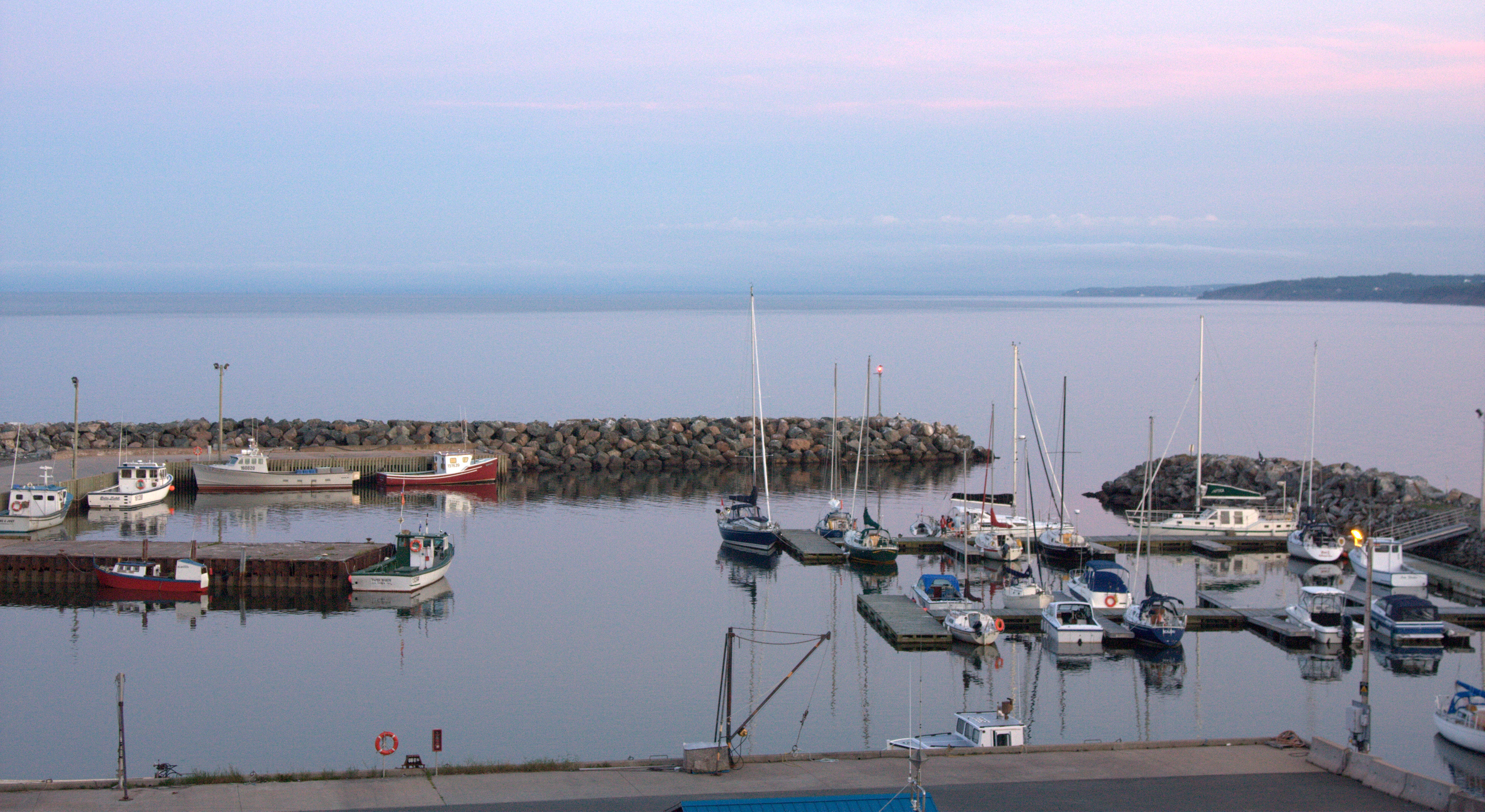 Ballantyne's Cove is a community in Antigonish County, Nova Scotia, Canada, lying on a small cove of the same name at the north-western end of St. George's Bay. The community and cove are named for one of its early settlers, David Ballantyne, a lowland Scotchman and British soldier who served in the 82nd regiment during the American Revolution and who received a grant for military service.